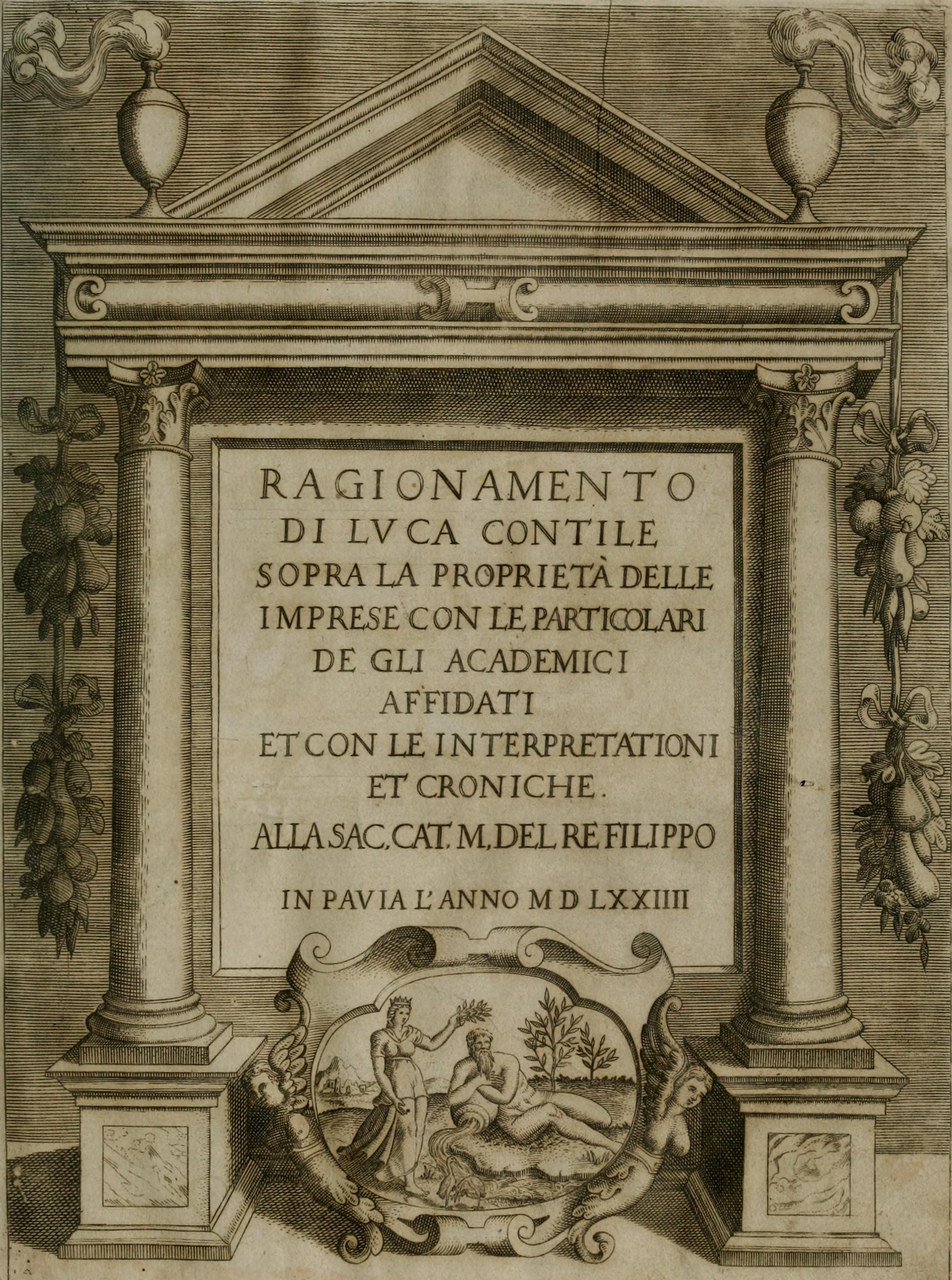 Title: Ragionamento di Luca Contile sopra la proprietà delle imprese con le particolari de gli academici Affidati et con le interpretationi et croniche .. Year: 1574 (1570s) Authors: Contile, Luca, 1505-1574 Subjects: Academia de gli Affidati in Pavia Emblems Devices (Heraldry) Publisher: In Pavia : (Appresso Girolamo Bartoli Text Appearing Before Image: 5 Text Appearing After Image: 1